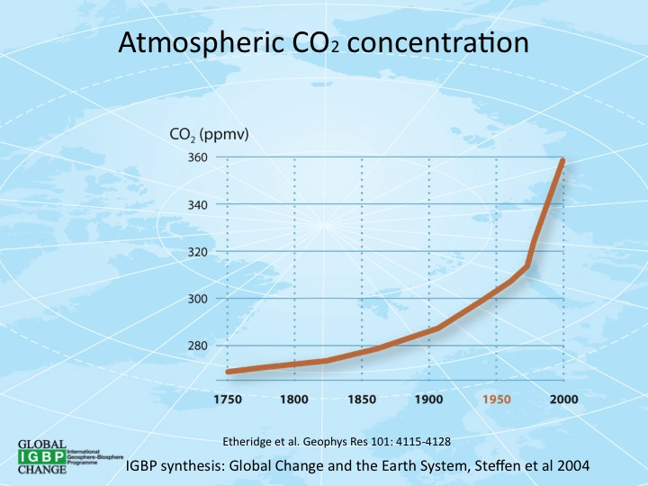 Atmospheric carbon dioxide concentration